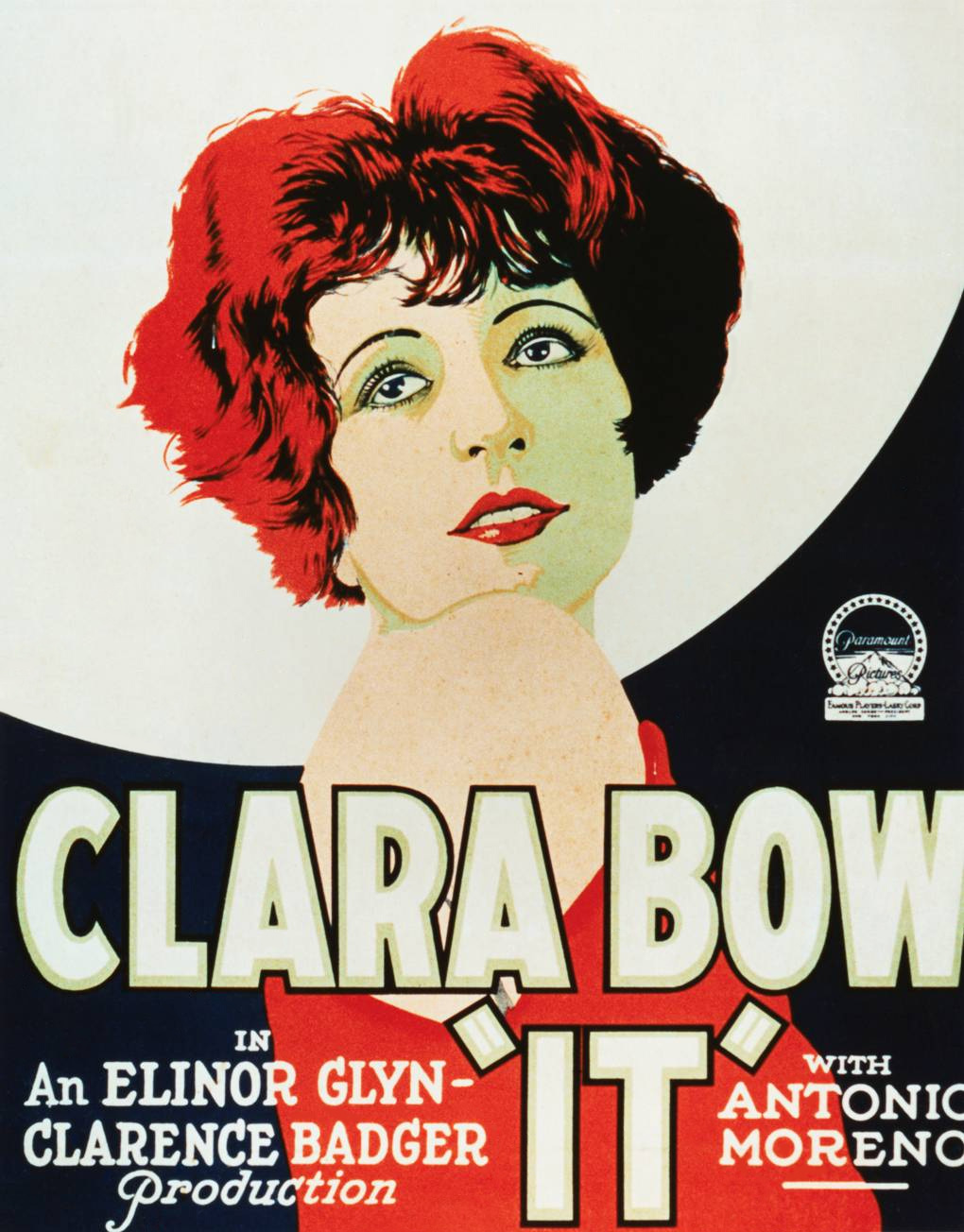 Theatrical release poster for the 1927 American film It.